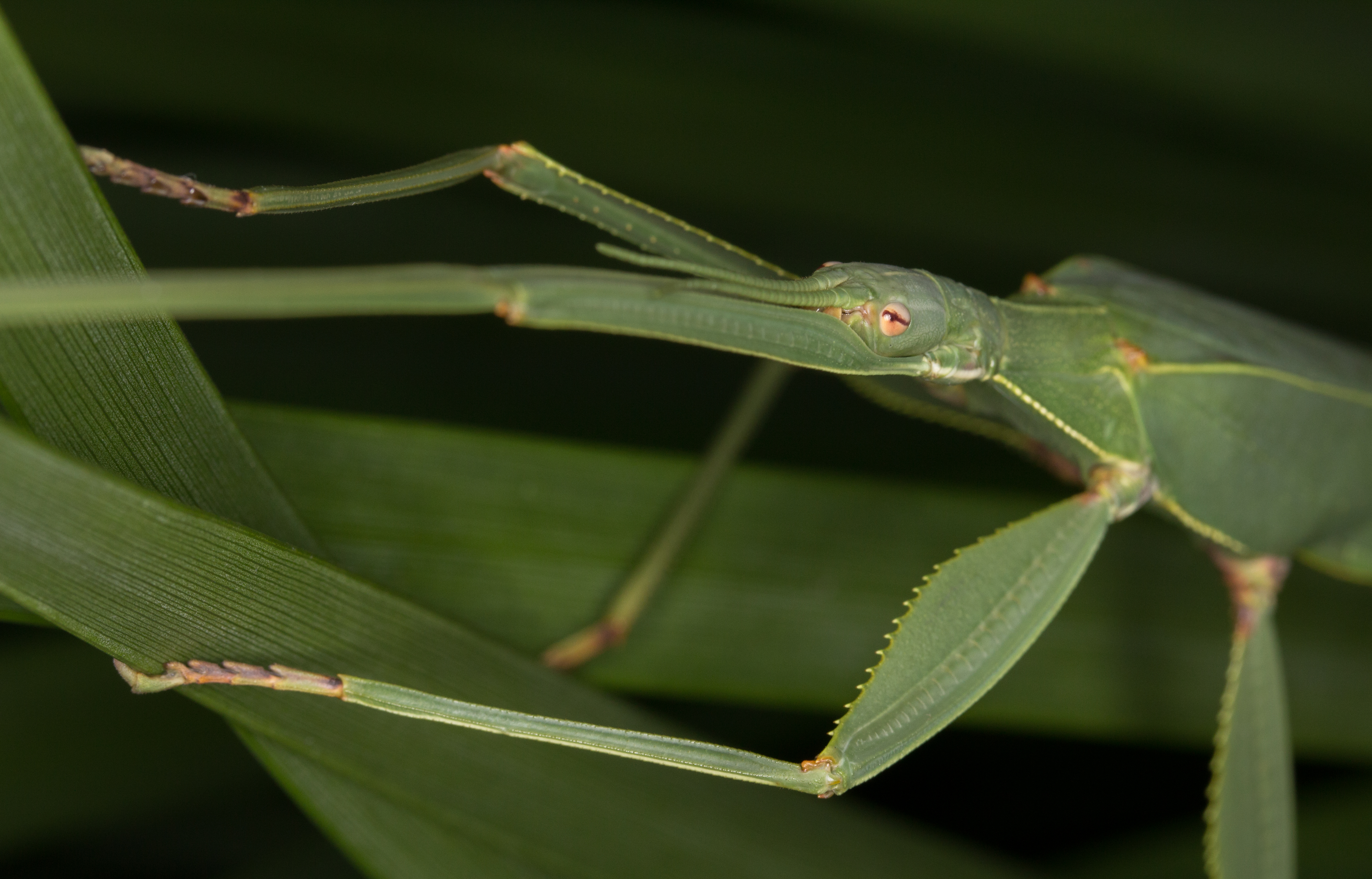 Children's stick insect